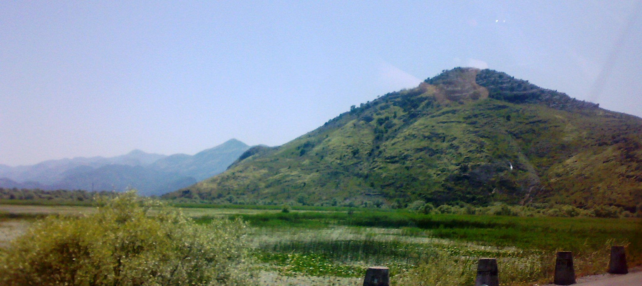 Image from southern Montenegro. Seen from highway between Podgorica and Budva.